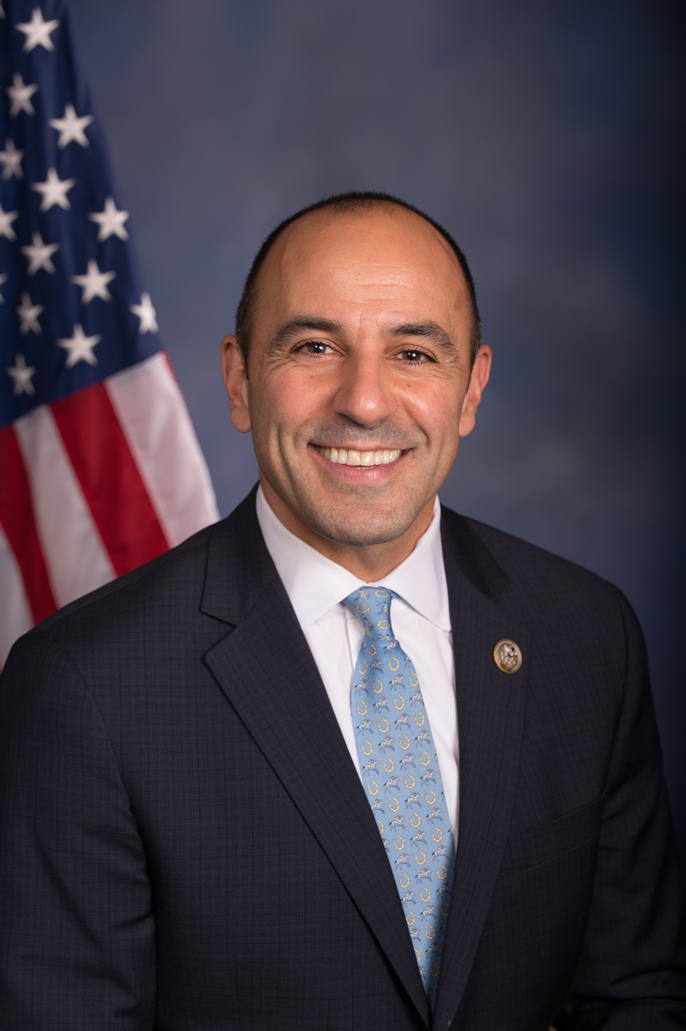 U.S. Rep. Jimmy Panetta (D-CA)